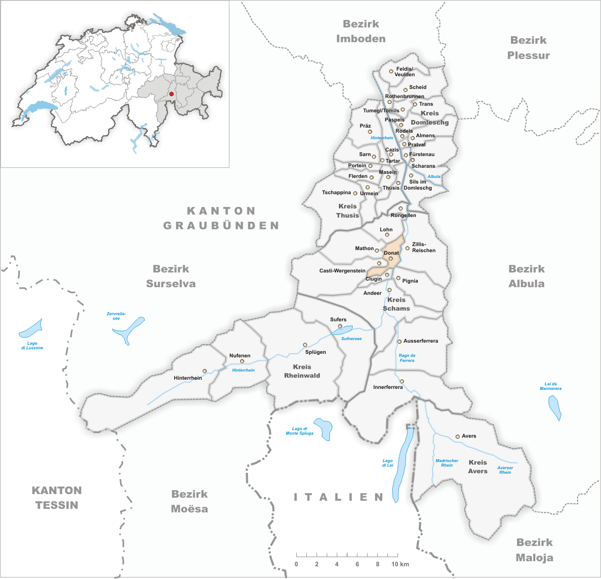 Municipality Donat